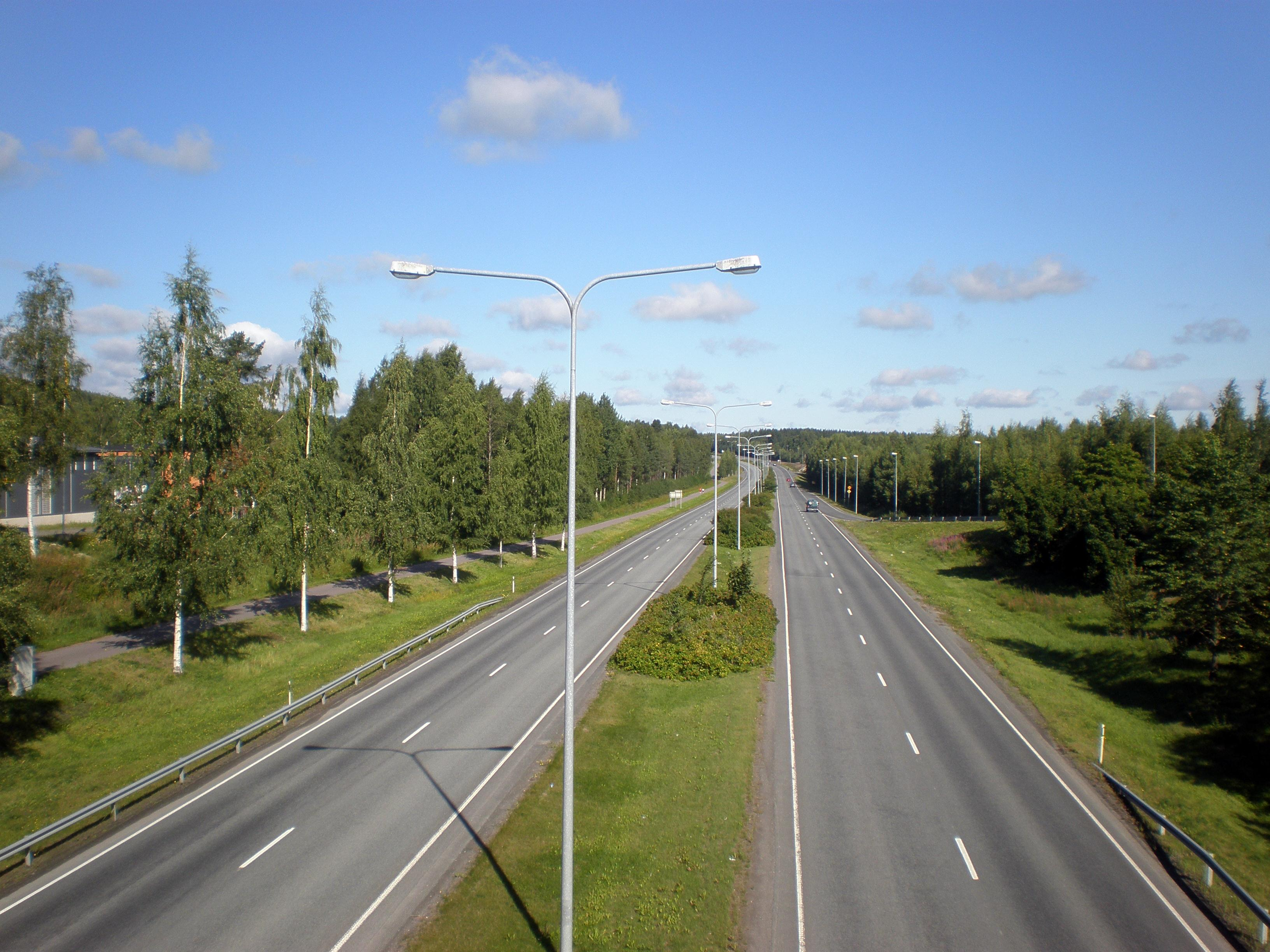 Finnish main road Class II 65 at Tampere. Picture was taken on the bridge at street Myllypuronkatu over the road 65 to the north.